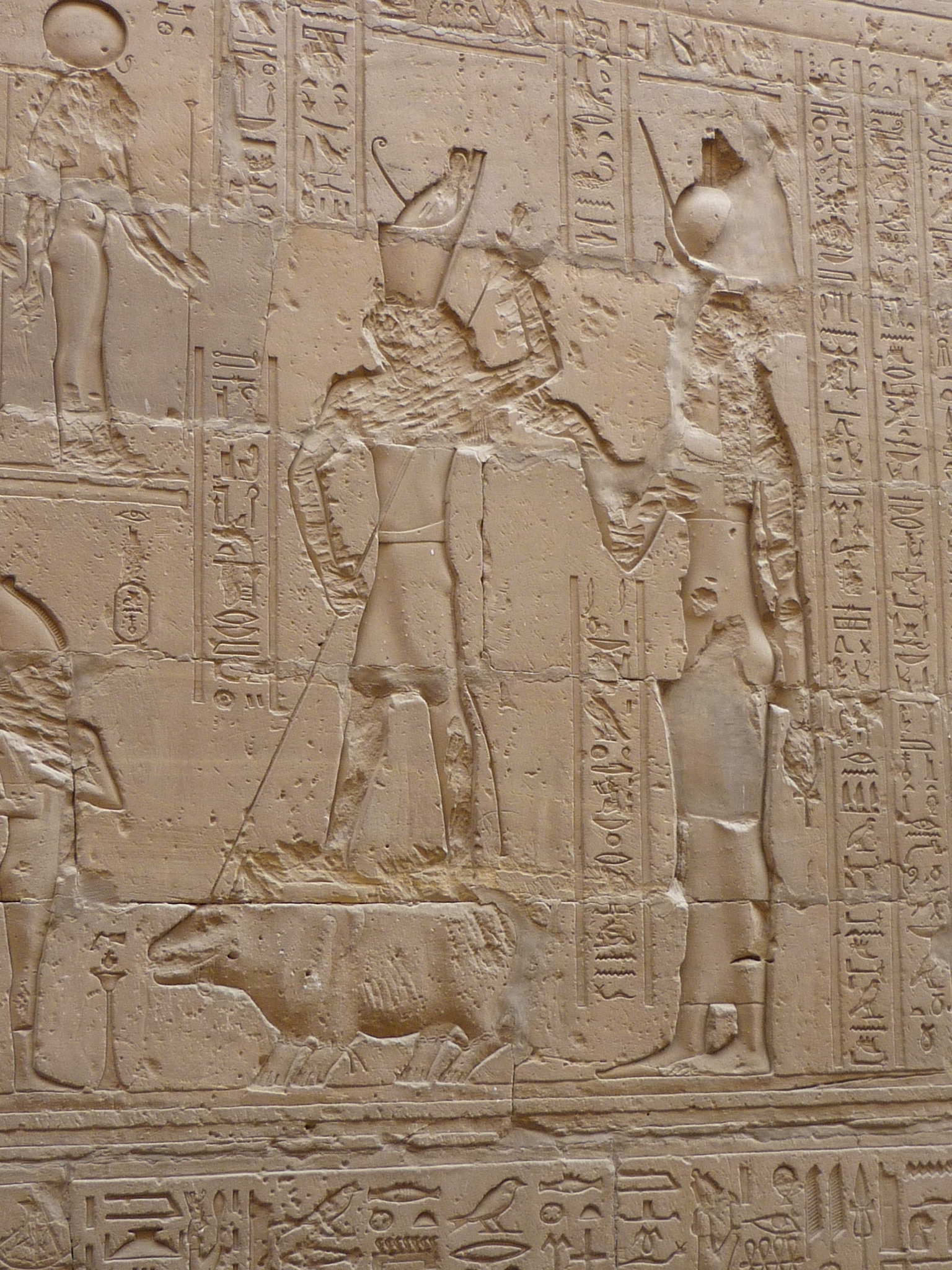 Wall relief of fight between Seth and Horus where Horus, helped by Isis, kill Seth (hippopotamus), temple of Edfu, Egypt